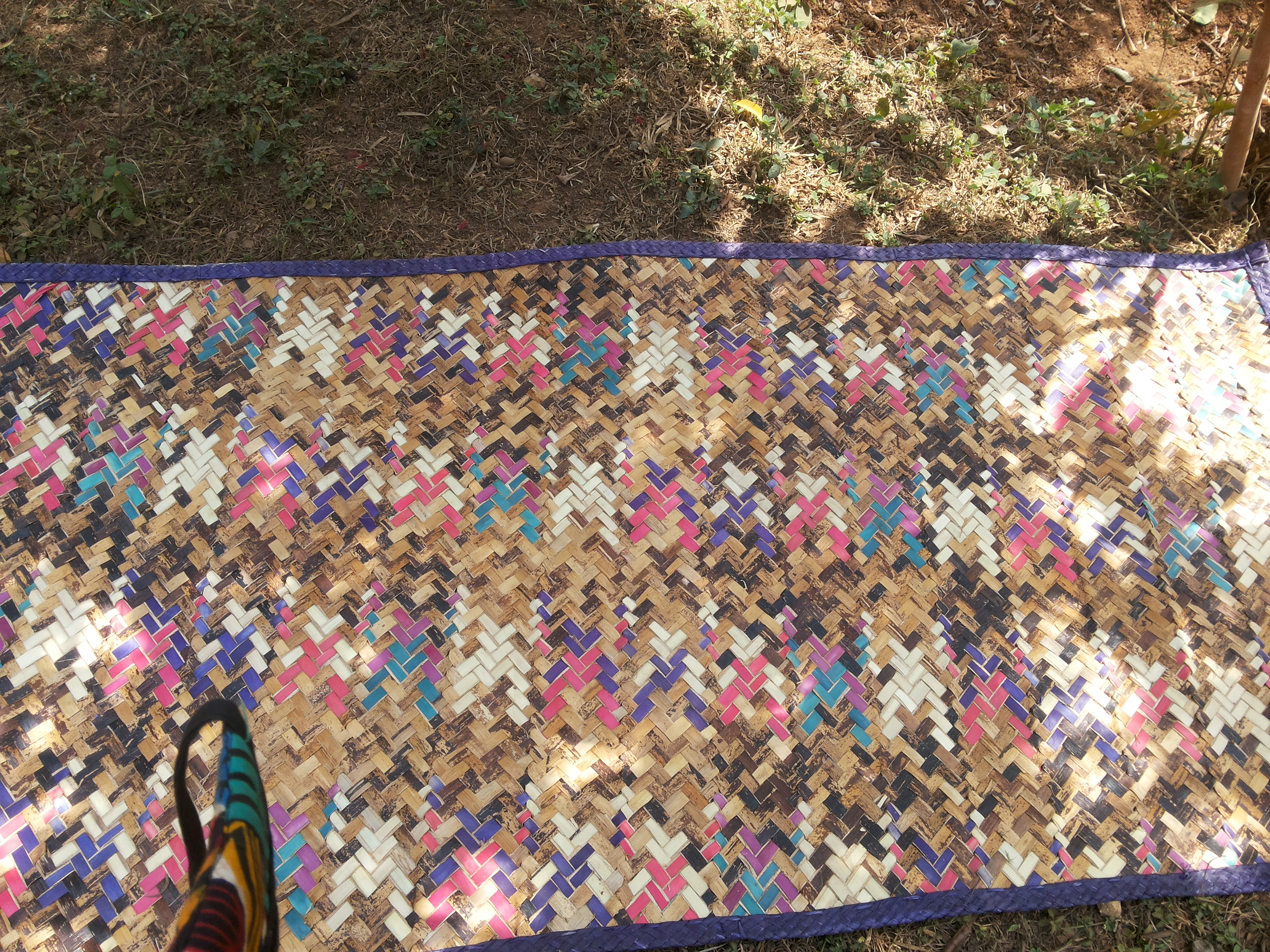 Nature Uganda poultry project